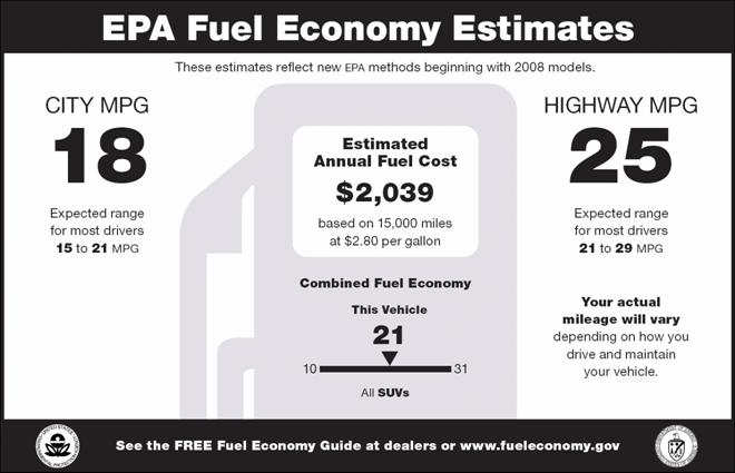 New fuel economy label in 2008 shows estimated annual fuel cost and a comparison to other vehicles of the same type.